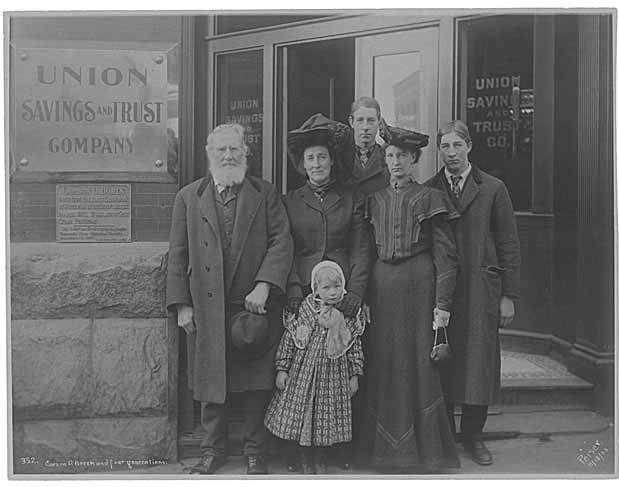 Caption on image: Carson D. Boren and four generations. Peiser. 11/13/05. 352 . Sign in image: Union Saving and Trust Company . Peiser 352 Subjects (LCTGM): Plaques--Washington (State)--Seattle; Banks--Washington (State)--Seattle; Union Savings and Trust Company (Seattle, Wash.)--Buildings